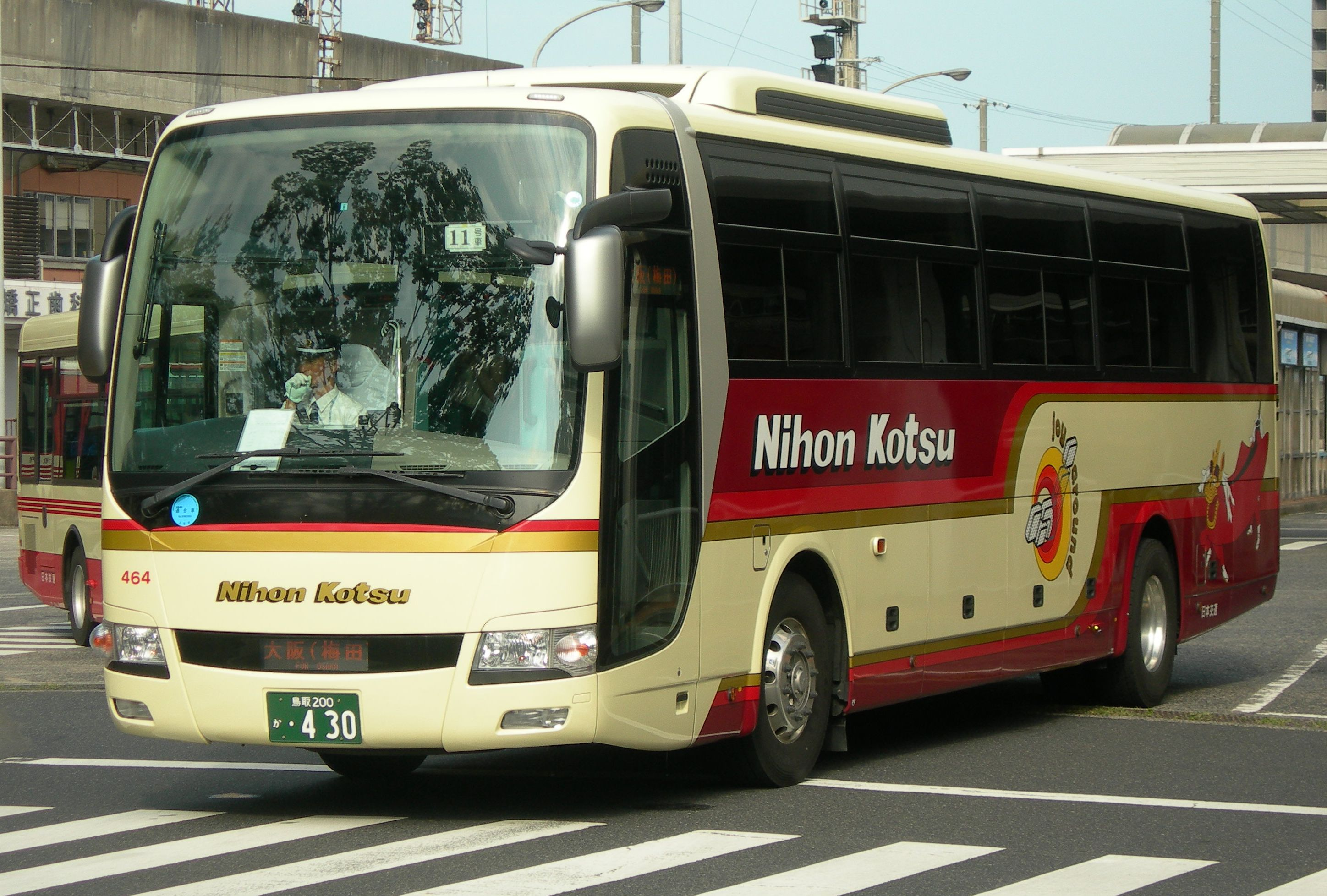 Nihon Kotsu Tottori Highway Bus 日本交通 (鳥取県) 大阪・神戸 - 鳥取線（昼行）